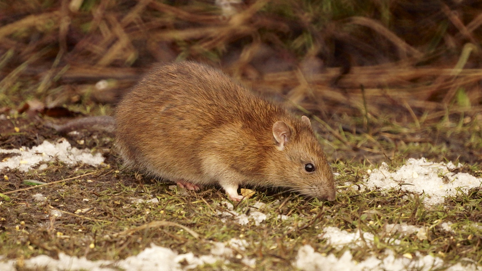 Enjoying the crumbs left by the ducks.